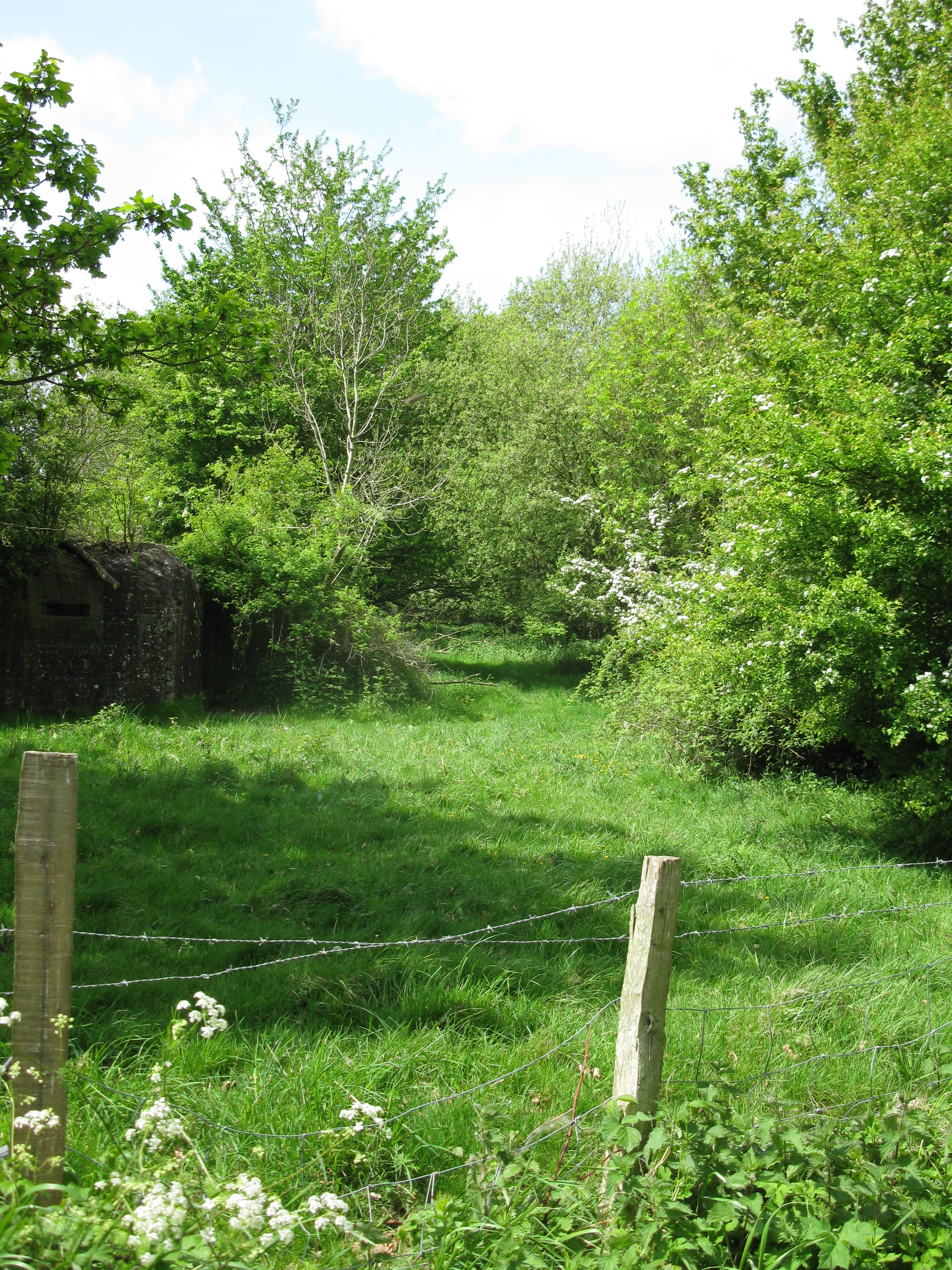 The site of Salehurst Halt, looking towards Robertsbridge. The halt would have been directly behind the photographer. Photo taken from the site of the level crossing immediately to the west of the halt.